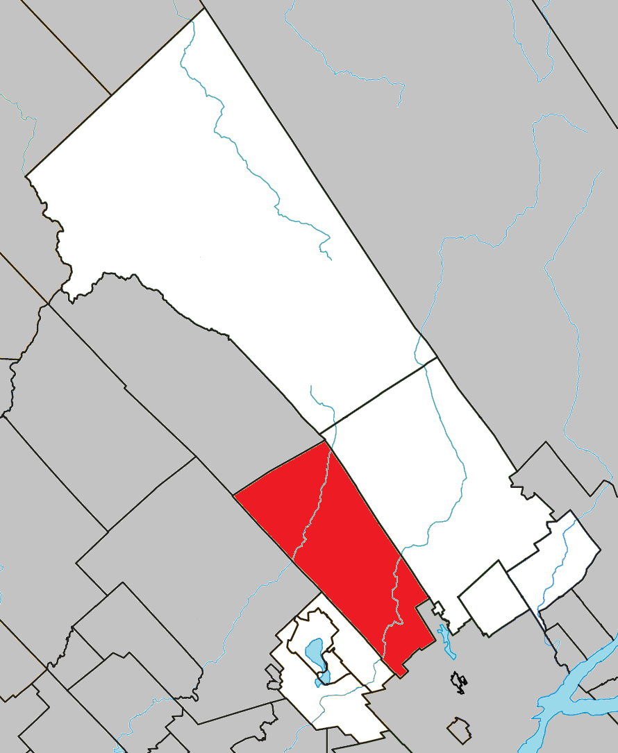 Location of Saint-Gabriel-de-Valcartier, Quebec within La Jacques-Cartier Regional County Municipality.